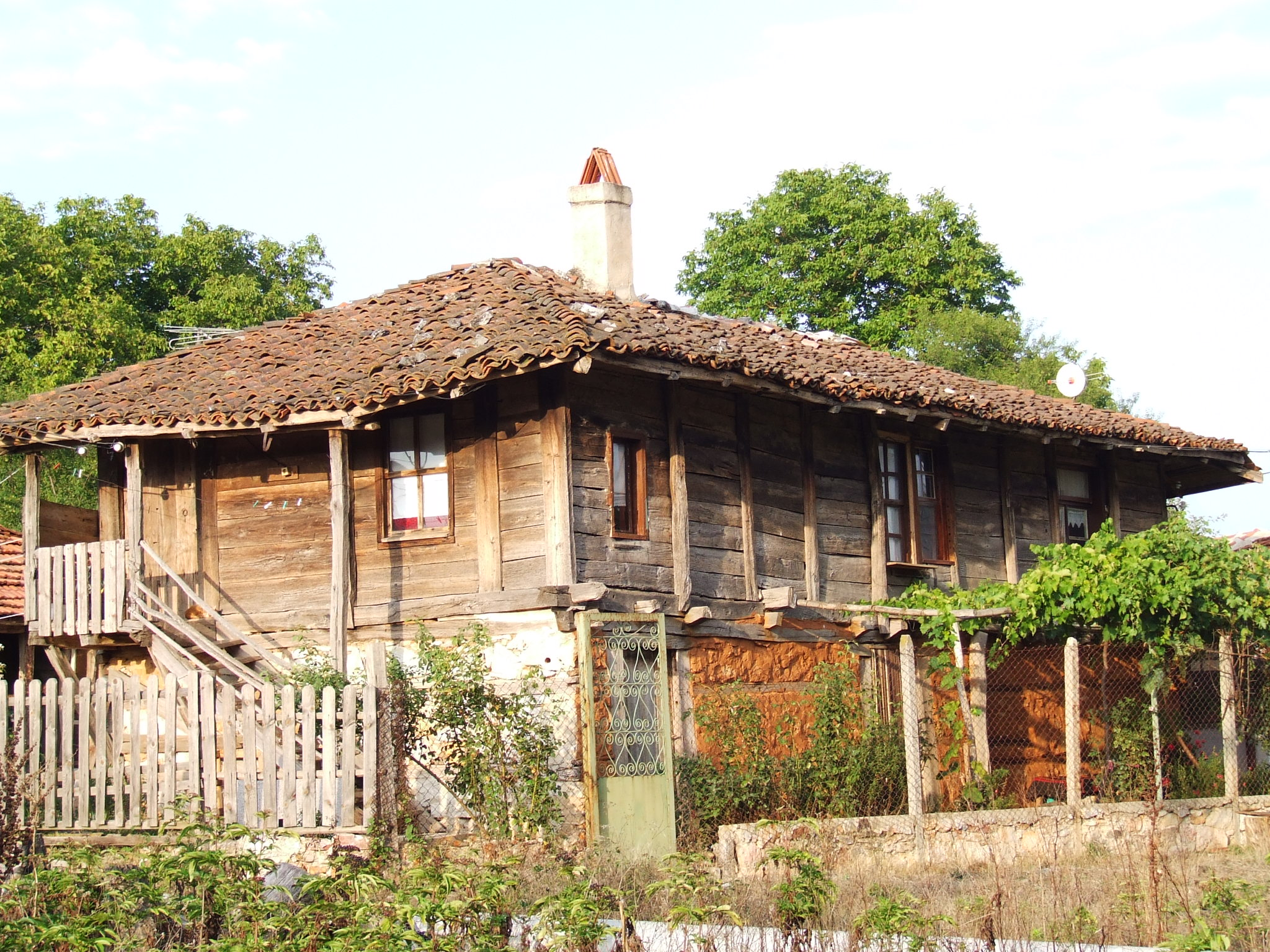 A house with typical Strandzha 18th century architecture in the Bulgarian village of Brashlyan, Malko Tarnovo municipality